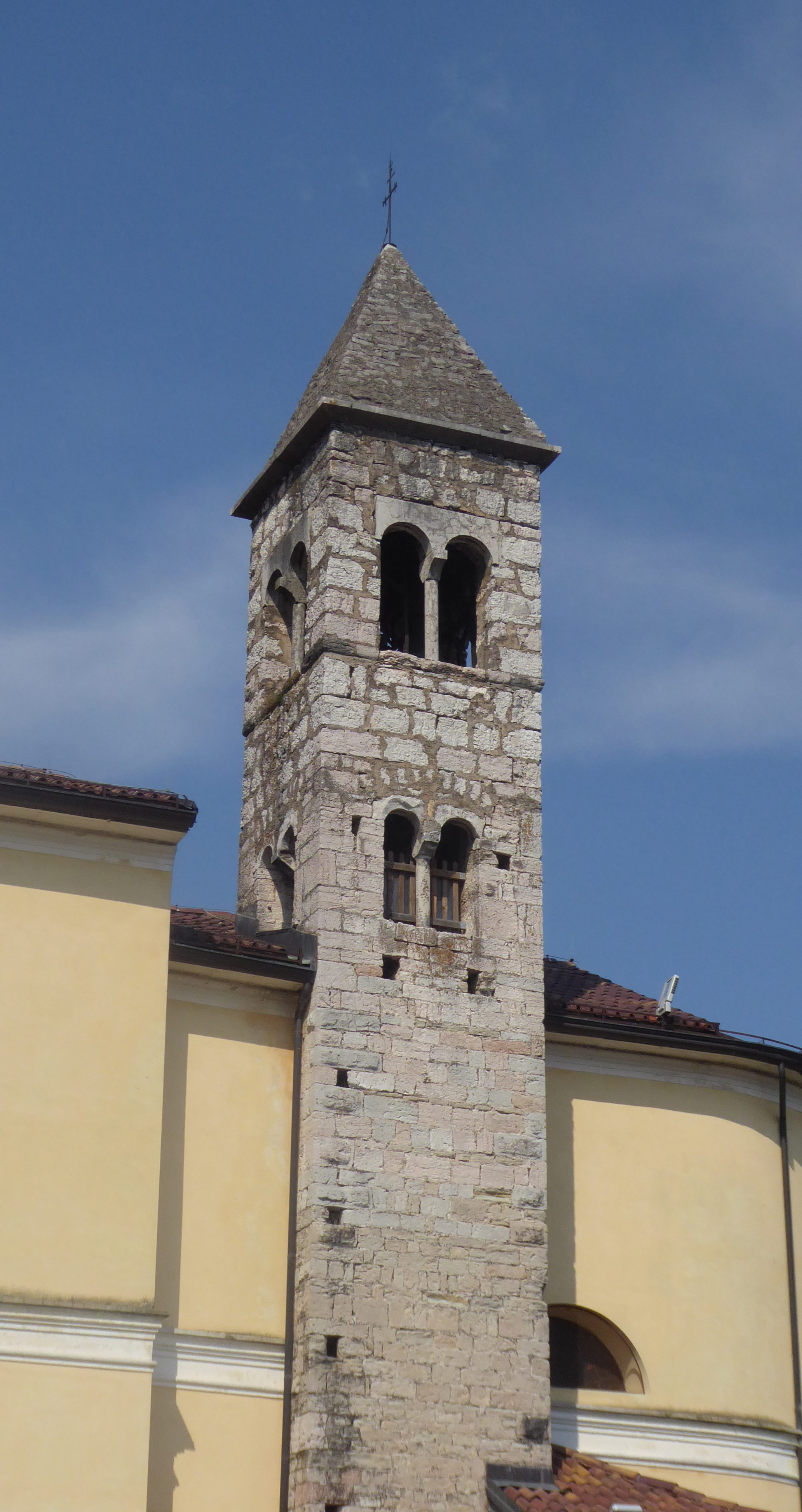 Covelo (Vallelaghi, Trentino, Italy), Saint James the Greater church - Belltower